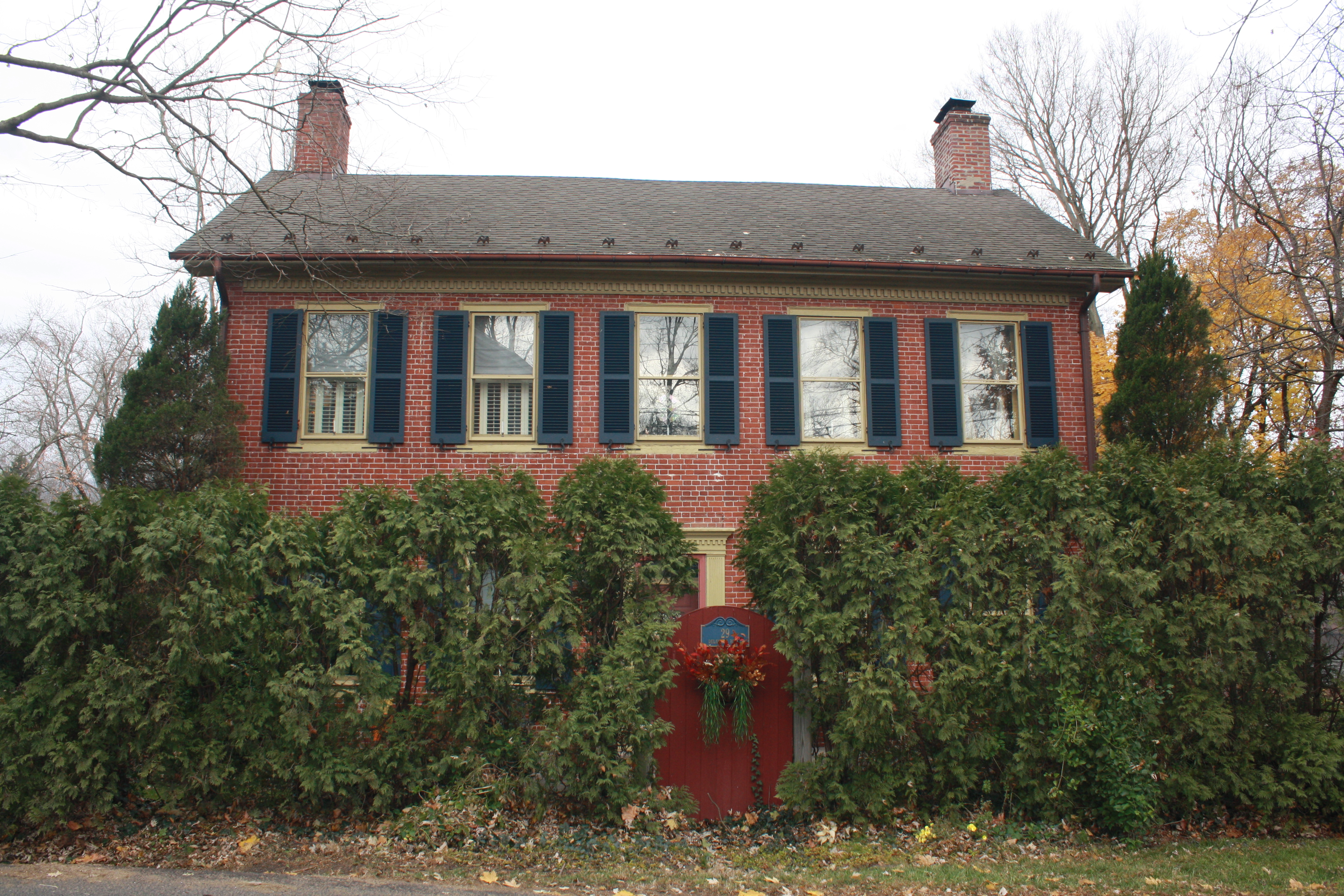 Benjamin Riegel House is a historic home located at Riegelsville, Bucks County, Pennsylvania. Object location40° 35′ 41″ N, 75° 11′ 35″ W